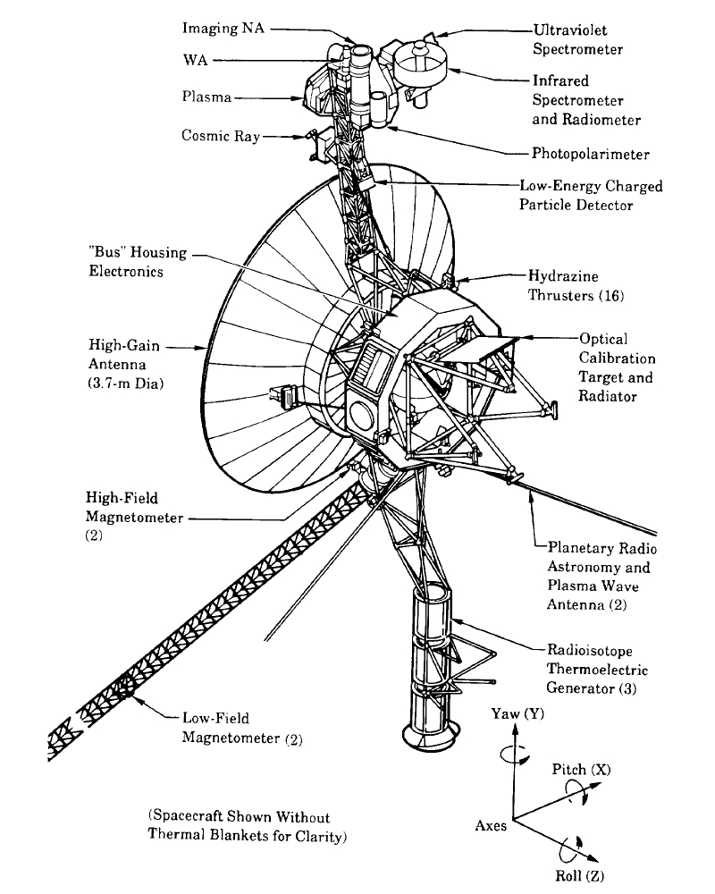 The Voyager spacecraft structure - schematic diagram. The 3.7 metre diameter high-gain antenna (HGA) is attached to the hollow ten-sided polygonal electronics bus, with the spherical tank within containing hydrazine propulsion fuel. The Voyager Golden Record is attached to one of the bus sides. The angled square panel to the right is the optical calibration target and excess heat radiator. The three radioisotope thermoelectric generators (RTGs) are mounted end-to-end on the lower boom. The two planetary radio and plasma wave antenna extend diagonally downwards left and right. The 13 metre long Astromast tri-axial boom extends diagonally downwards left and holds the two low-field magnetometers (MAG); the high-field magnetometers remain close to the HGA. The instrument boom extending upwards holds, from bottom to top: the cosmic ray susbsystem (CRS) left, and Low-Energy Charged Particle (LECP) detector right; the Plasma Spectrometer (PLS) right; and the scan platform that rotates about a vertical axis. The scan platform comprises: the Infrared Interferometer Spectrometer (IRIS) (largest camera at top right); the Ultraviolet Spectrometer (UVS) just above the UVS; the two Imaging Science Subsystem (ISS) vidicon cameras to the left of the UVS; and the Photopolarimeter System (PPS) under the ISS. Suggested for English Wikipedia:alternative text for images: A space probe with squat cylindrical body and a large parabolic radio antenna dish pointing left, a three-element radioisotope thermoelectric generator on a boom extending down, and scientific instruments on a boom extending up. A disk is fixed to the body facing front left. A long tri-axial boom extends down left and two radio antenna extend down left and down right.